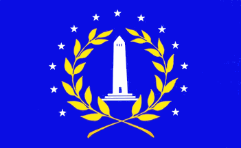 This is a Parish flag of St. Bernard Parish, Louisiana. It depicts the monument to the Battle of New Orleans in the War of 1812 surrounded by stars and laurel branches. The monument is located in Chalmette, Louisiana at the Chalmette Battlefield. I created this image in 2002. It's based off of a photograph of the winning flag for a re-design contest of the St. Bernard Pairsh Flag. It was submitted to the fotw database. Wikipedians and the like are free to use it for whatever they see fit. Category:St. Bernard Parish, Louisiana